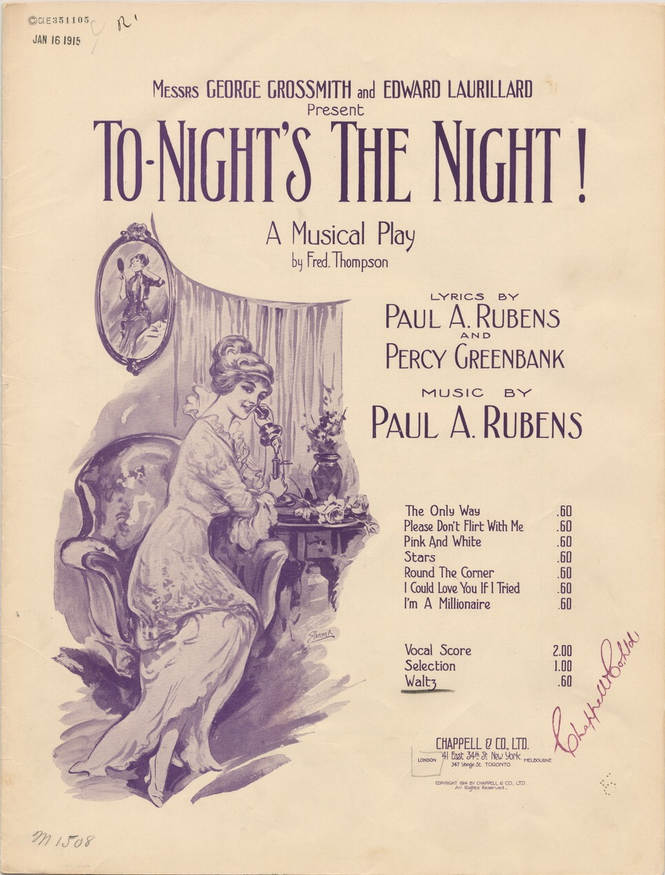 To-night's the Night!: A Musical Play (1915) sheet music cover, music by Paul Rubens and lyrics by Percy Greenbank and Paul Rubens. Published by Chappell & Co., New York, NY.